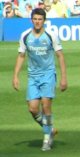 Joey Barton playing for Manchester City. Cropped from original source.